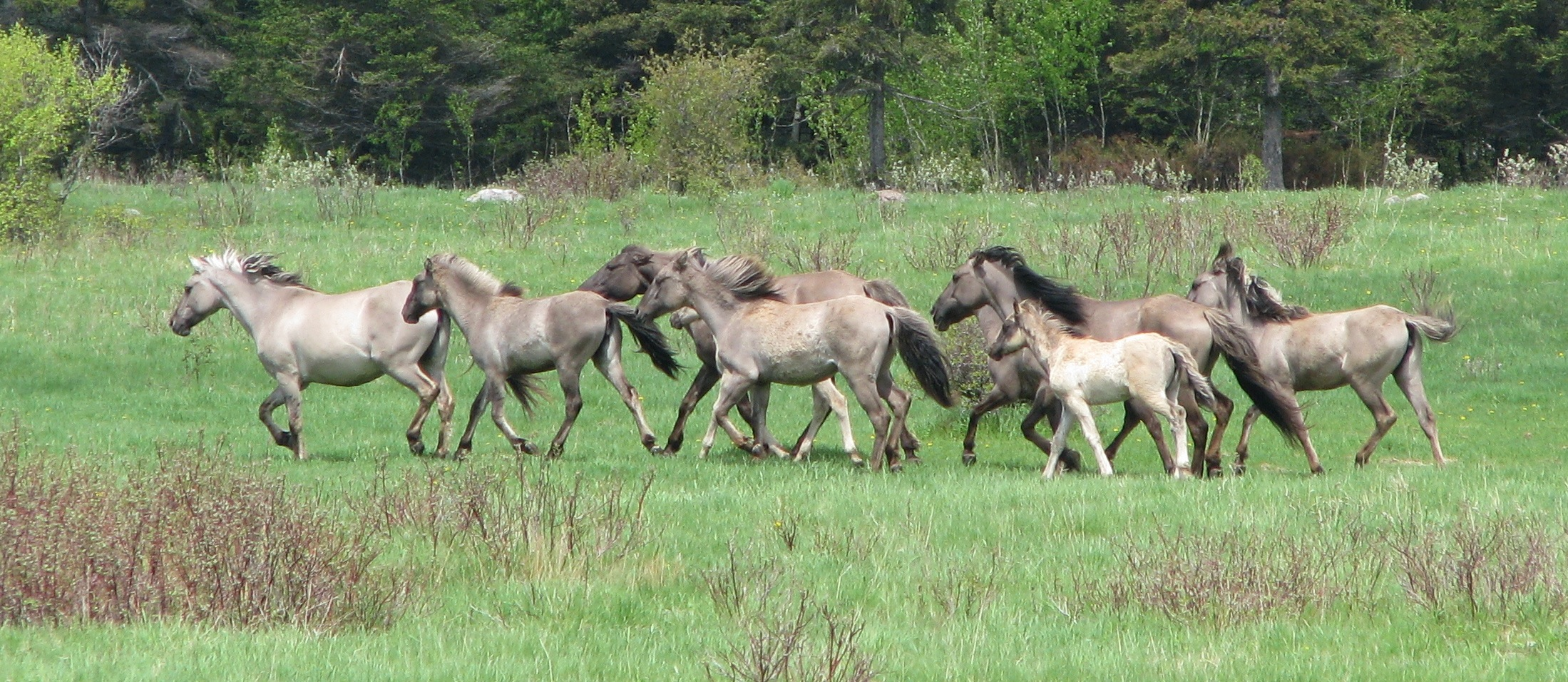 The family band of Sorraia horses at the Ravenseyrie Sorraia Mustang Preserve on Manitoulin Island, Ontario, Canada